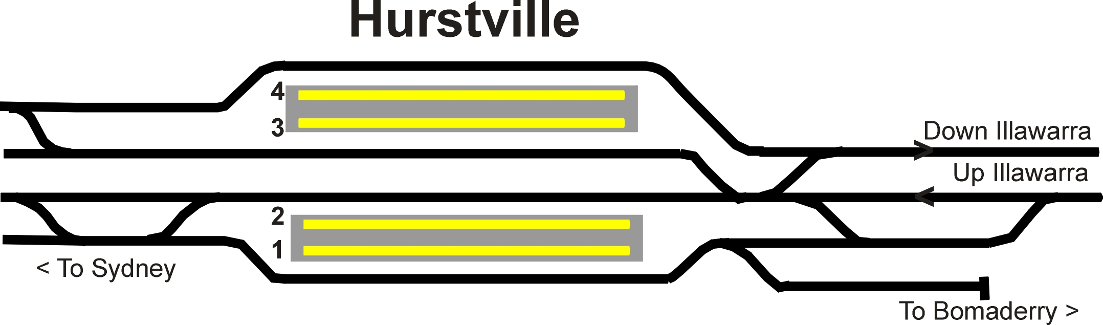 Track arrangement at Hurstville railway station, Sydney